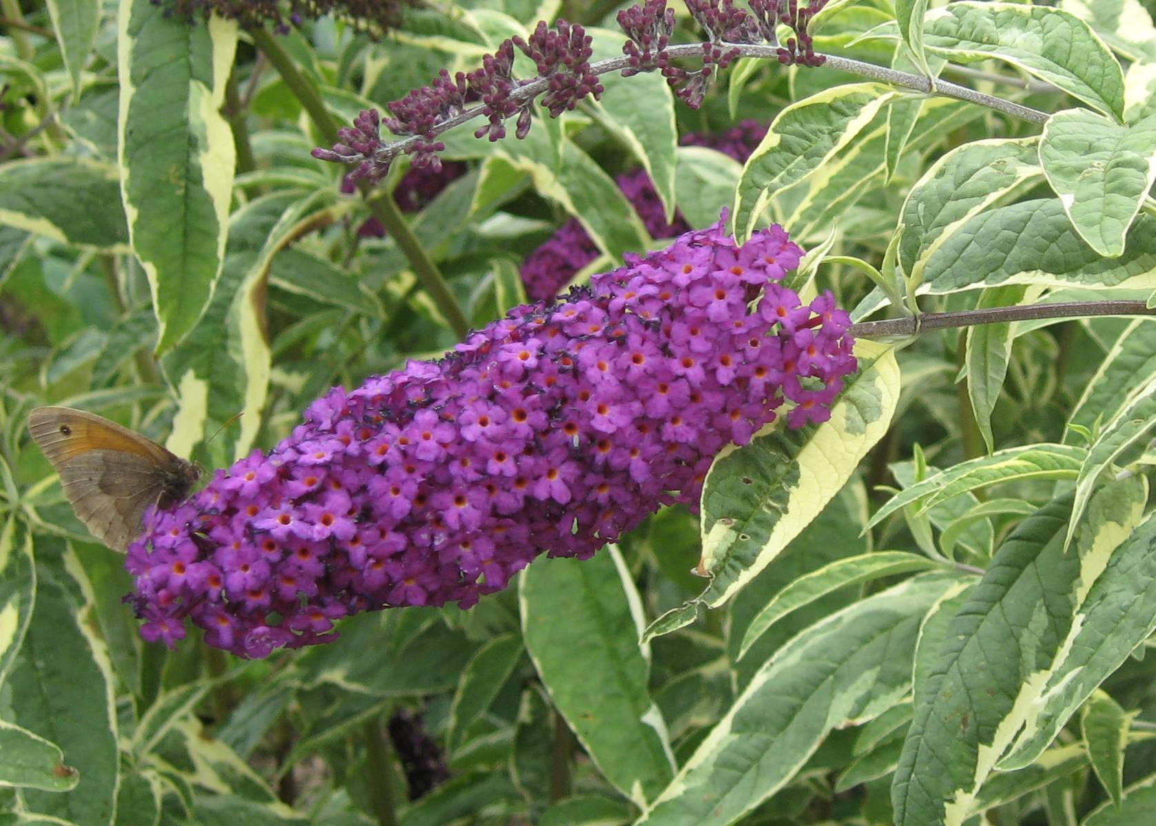 Photo of Buddleja cultivar taken at Longstock Park Nursery, UK, NCCPG national collection holder